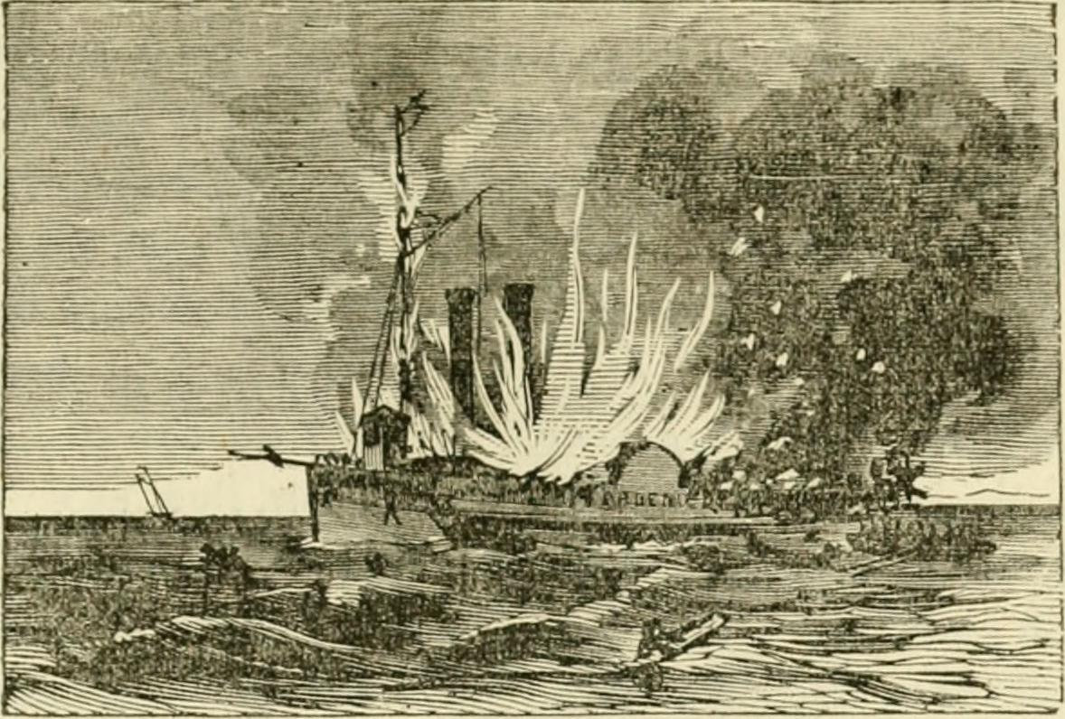 The burning of the Phoenix on Lake Michigan in 1847